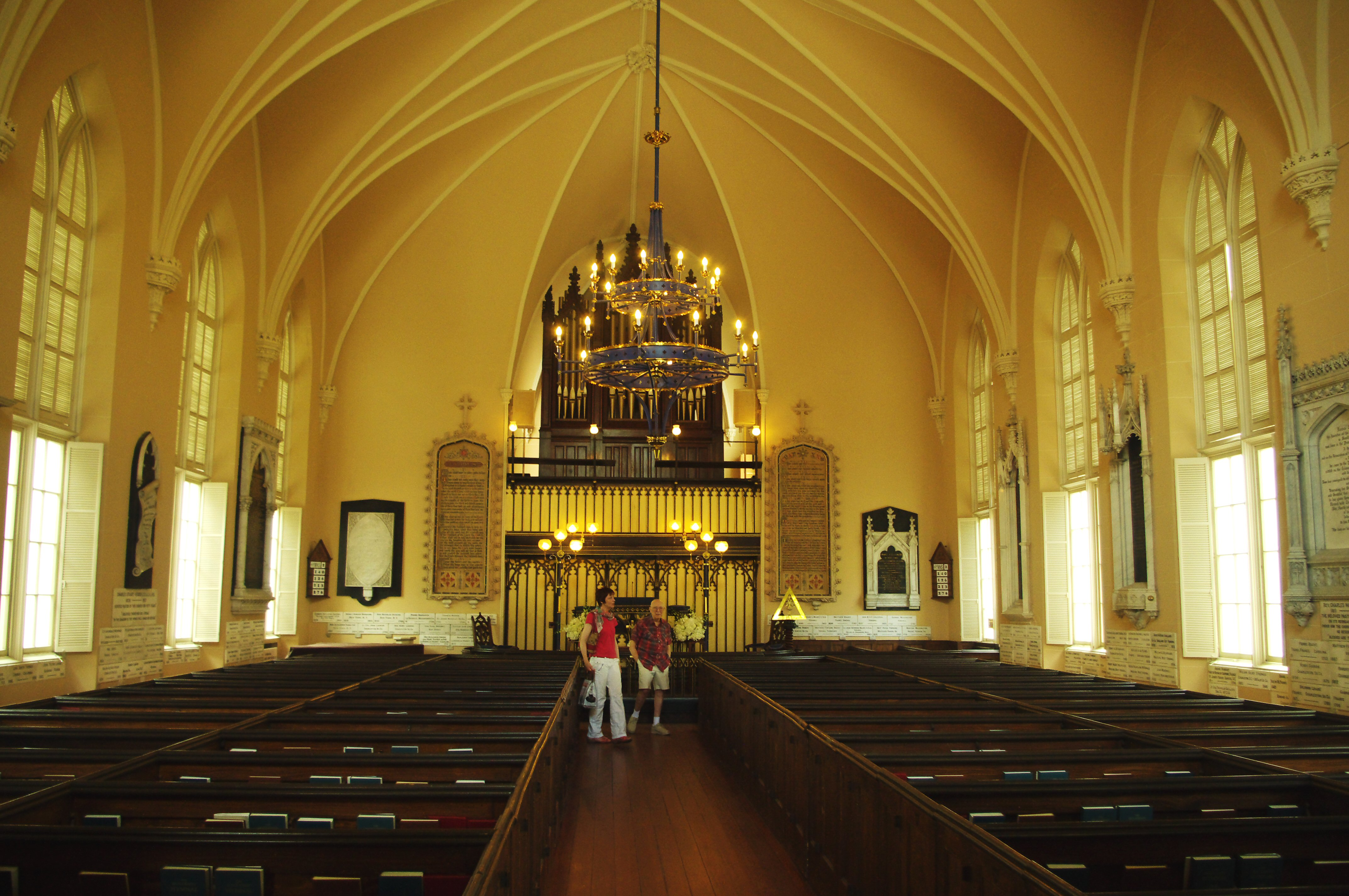 The interior of the Huguenot Church in Charleston, South Carolina, United States